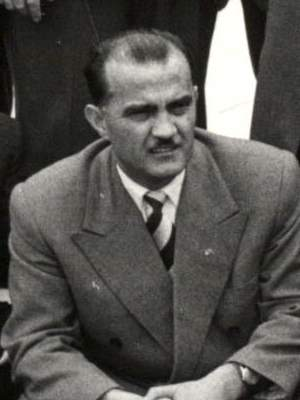 Inventarski broj: 1958 087 193